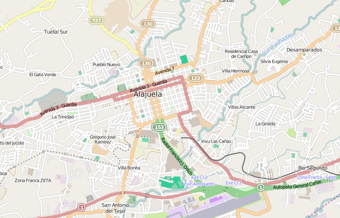 Map of Alajuela, Costa Rica Geographic limits of the map: N: 10.031725° S: 9.994705° W: -84.240879° E: -84.182031°